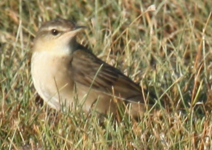 Locustella certhiola aka Pallas's Warbler (just to confuse Brit birders) aka PG Tips (just to confuse non-Brit birders)